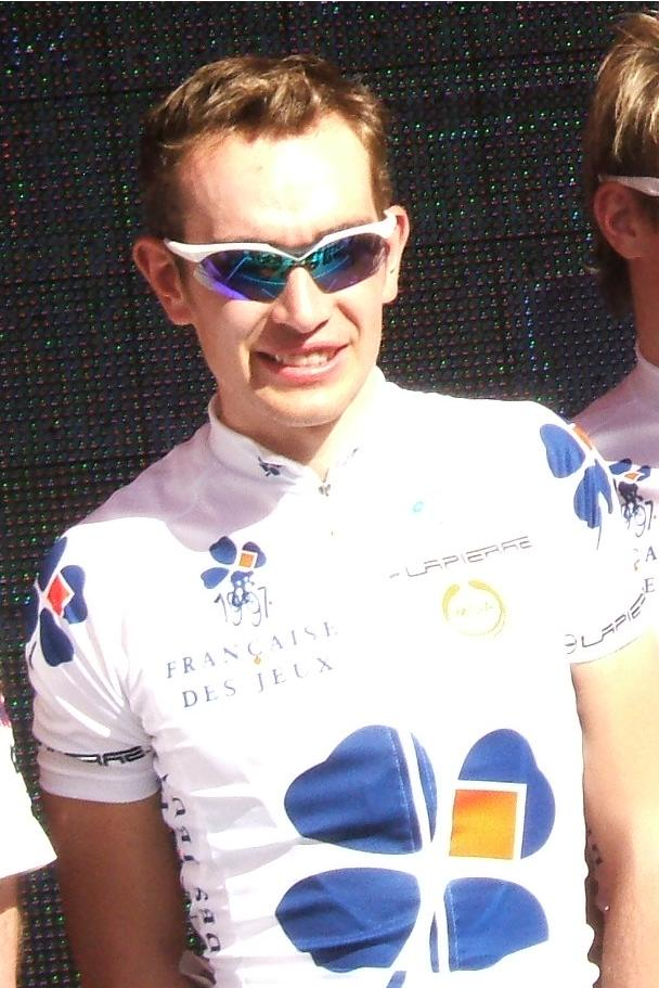 Named cyclist at the en:2009 Tour Down Under team presentation